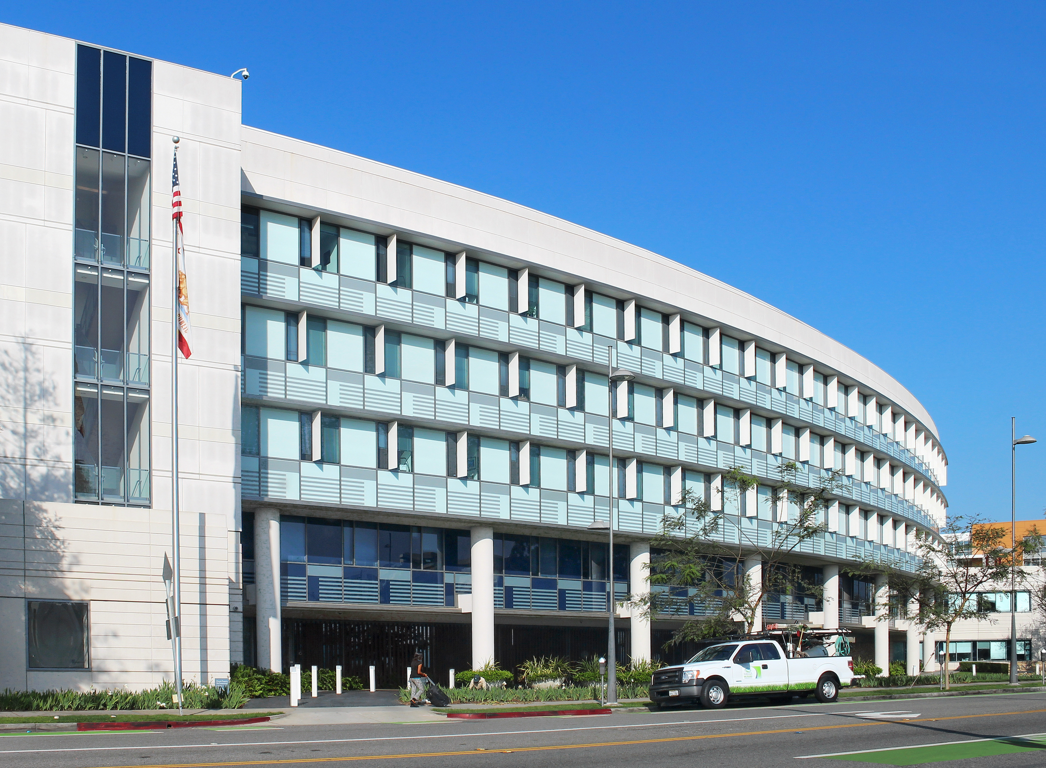 RAND Corporation headquarters in Santa Monica, California. Photographed on March 28, 2015 by user Coolcaesar.